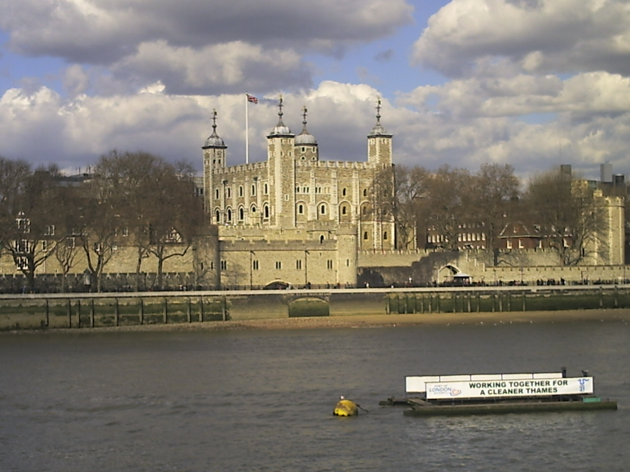 Tower of London